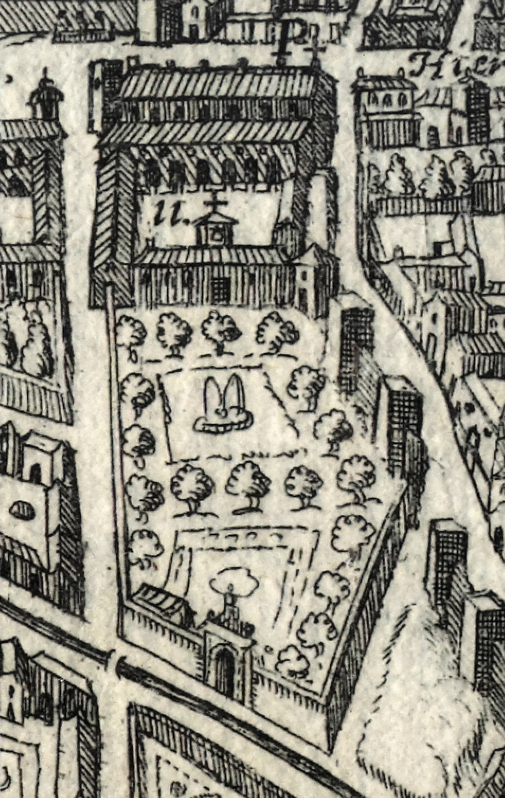 Ambrosio Vico: Plataforma de Vico - City map of Granada, 1610 (Detail: Garden of the Jesuits convent, now botanical Garden)